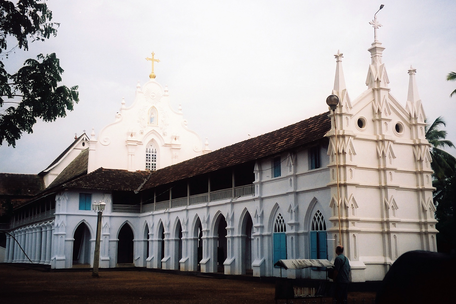 Palayur Church is the oldest Christian church in India and one of the seven founded by St Thomas the Apostle in 52 AD.